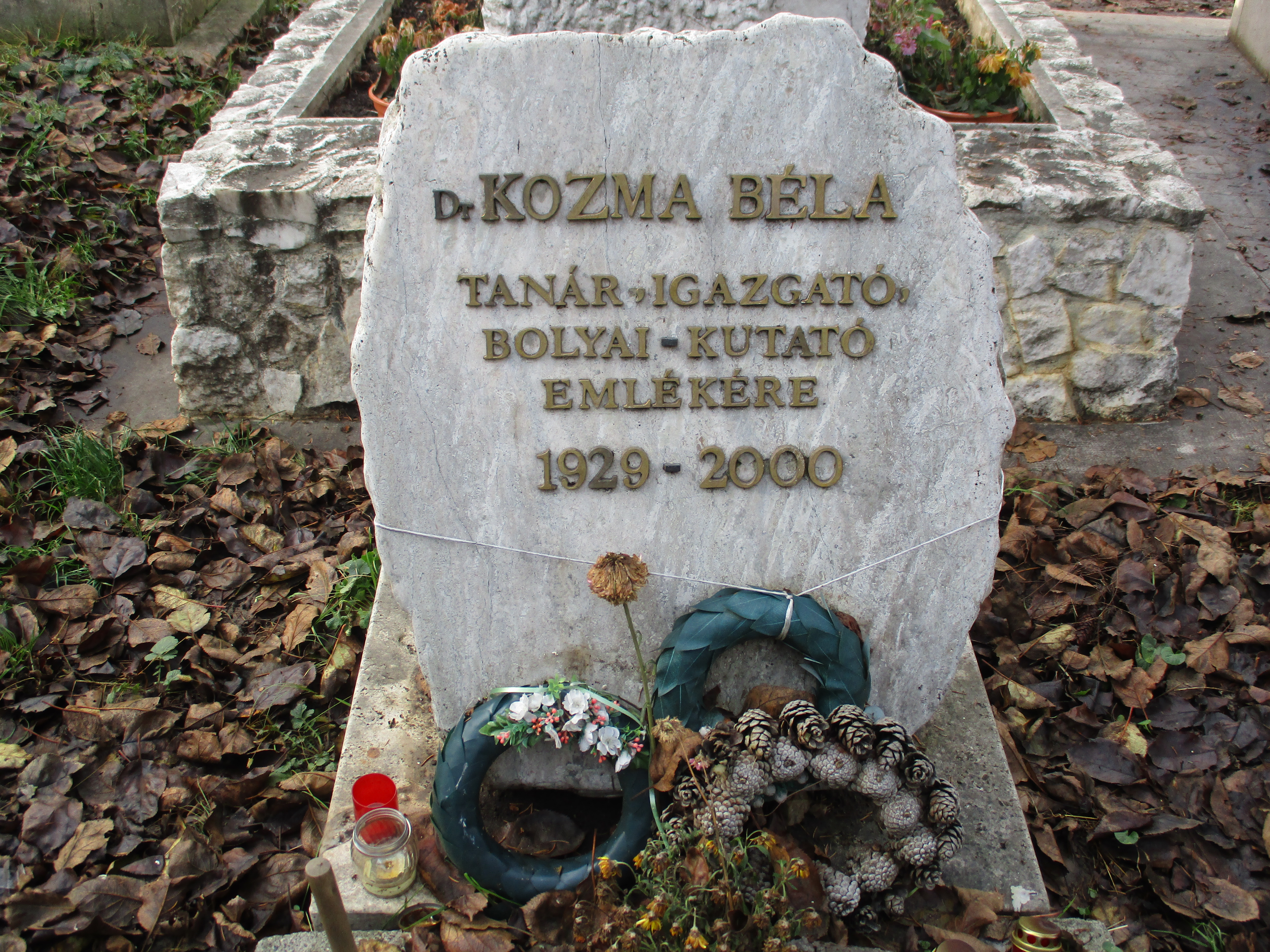 Béla Kozma (1930-2000) professor of Hungarian language and literature, director of the Farkas Bolyai High School in Târgu Mureș, one of the founders of the Bolyai cult - memorial plaque at the Reformed Cemetery in Târgu Mureş